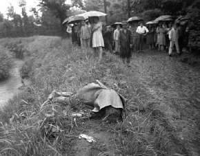 Discovery of Dazai's drowned body in 1948